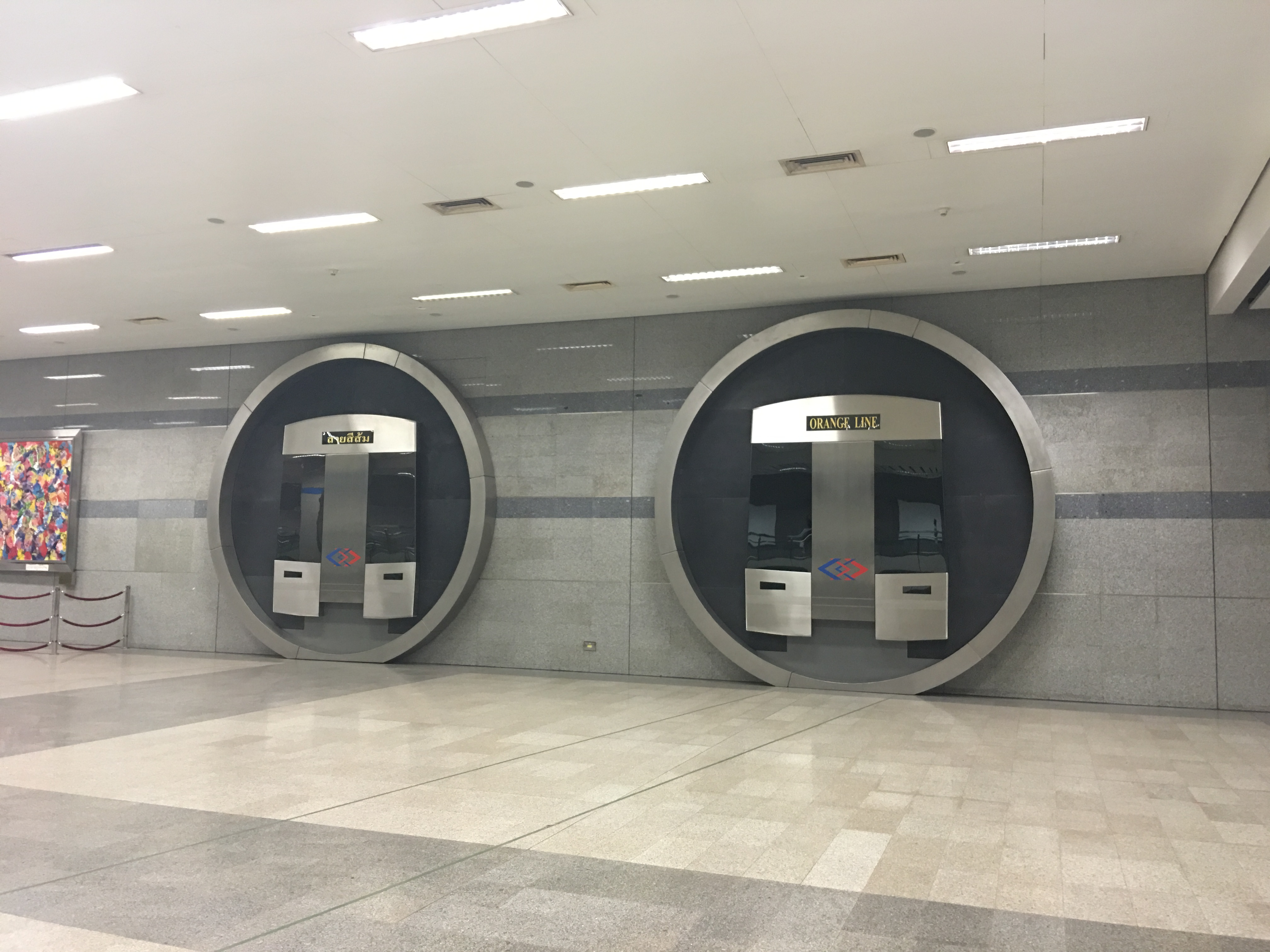 Proposed MRT Orange Line Platforms at Thailand Cultural Centre Metro Station, Bangkok 22 May 2016